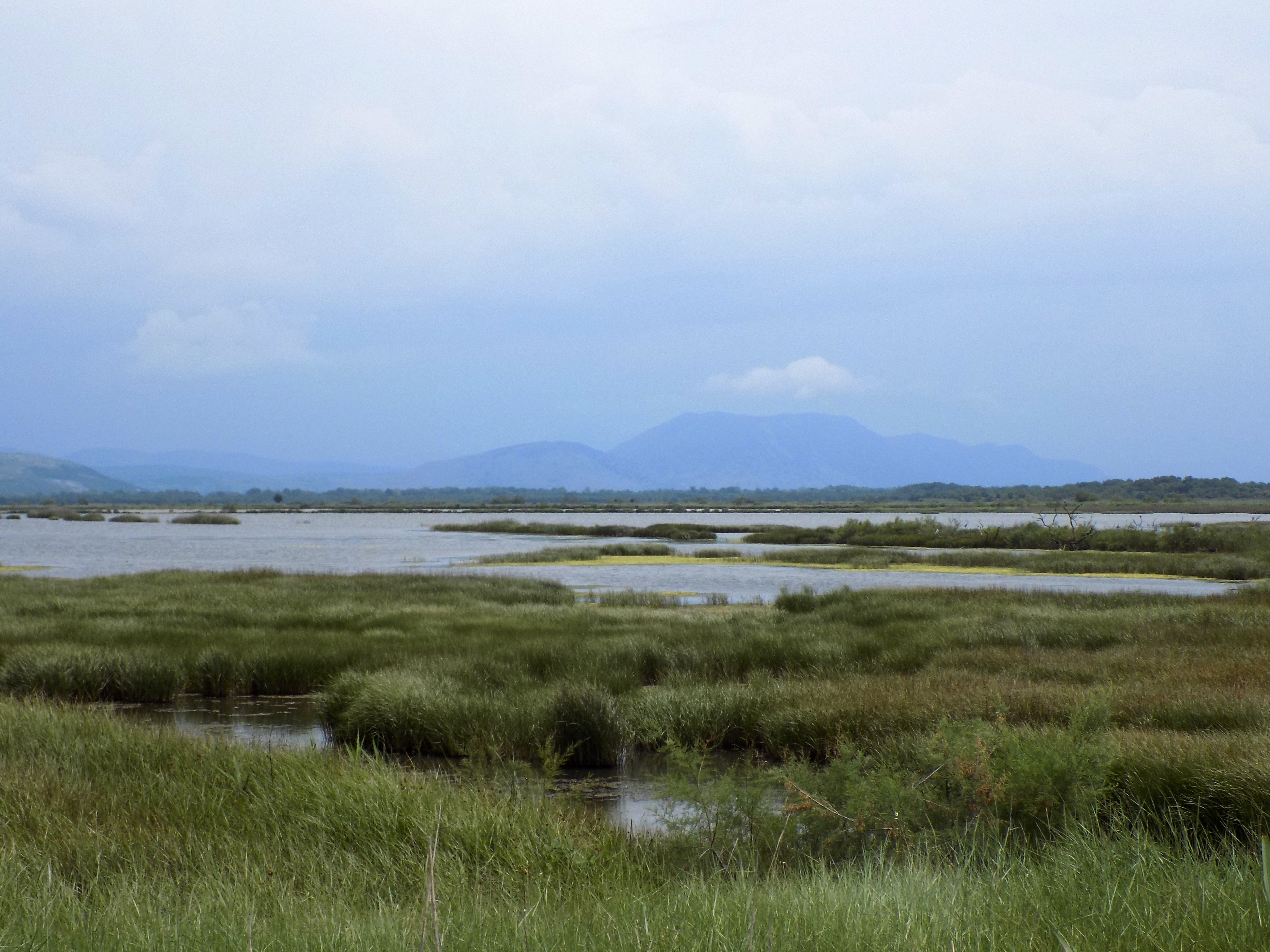 Ulcinj Salinas, important bird area